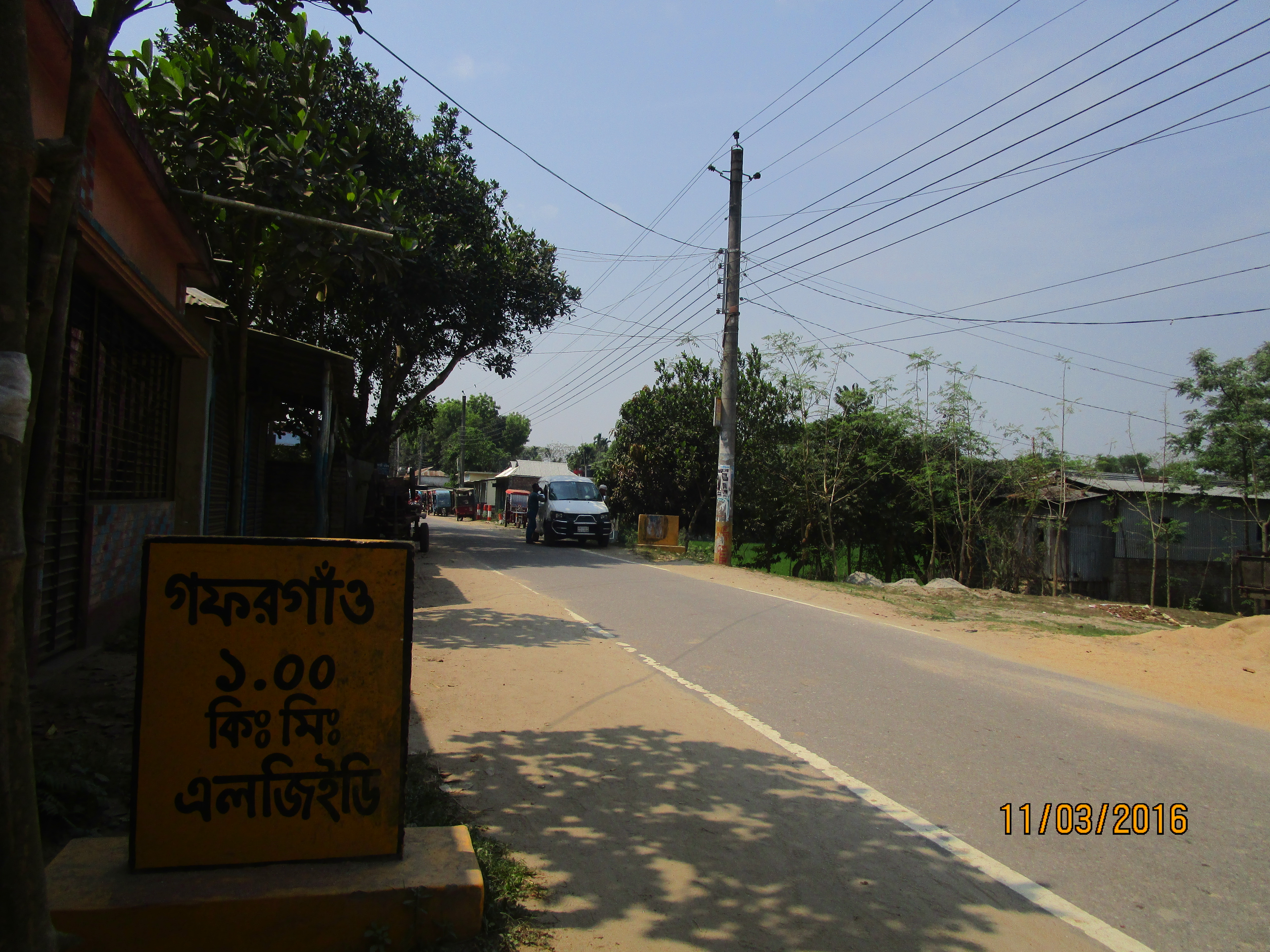 Gafargaon milestone showing 1km from saltia, near from Gafargaon Bridge